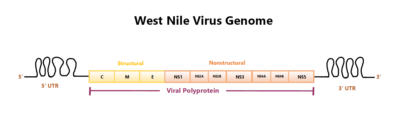 Depicts the RNA genome of the West Nile Virus including all of its genes and the 5' and 3' untranslated regions